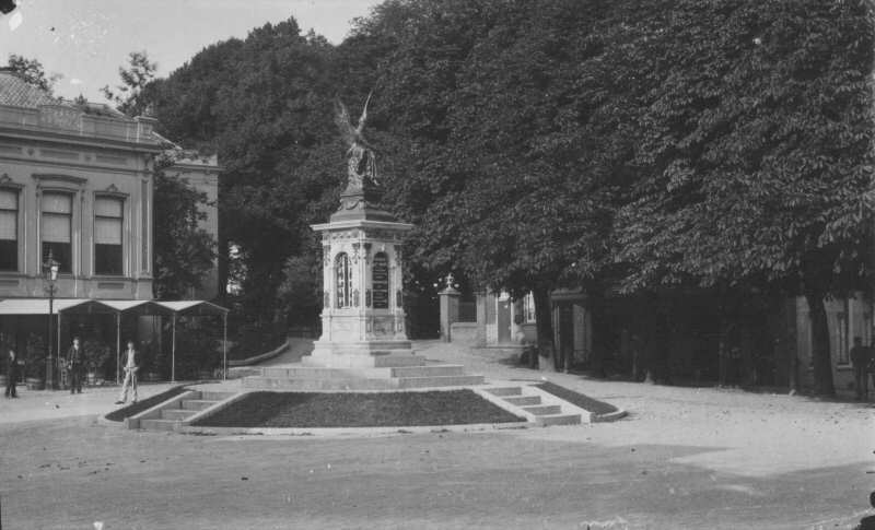 Picture of the railroad monument, built in 1884, to honor the succesful fundraising and subsequent construction of the railroad from Nijmegen (Netherlands) to Kleve (Germany) in 1865. On the left, a part of "Sociëteit Burgerlust" can be seen (demolished in 1955).